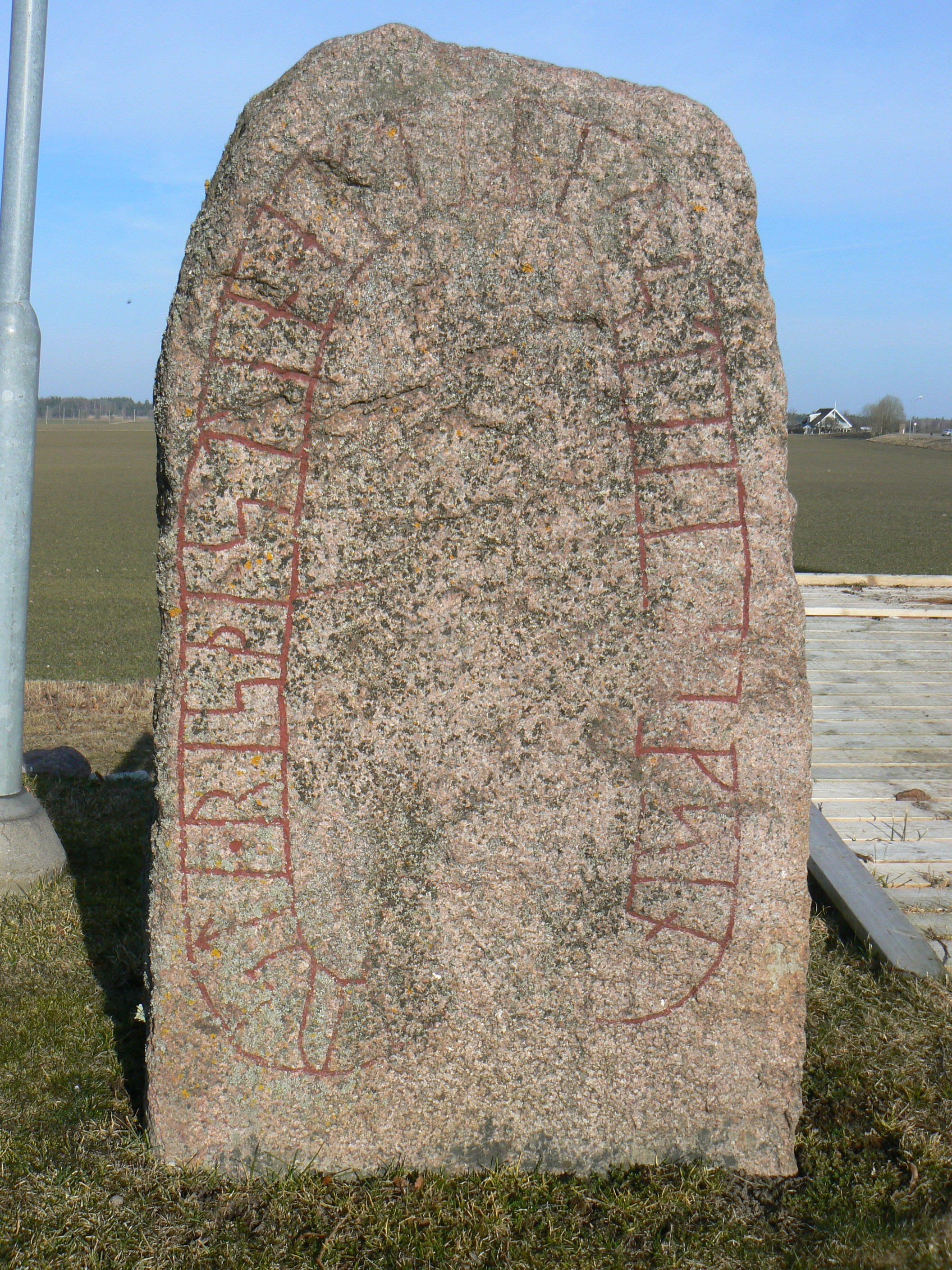 Östergötlands runinskrifter 204, runestone at Viby Church east of Mjölby in Östergötland, Sweden. Photographed by User:Skvattram 2009-04-03.